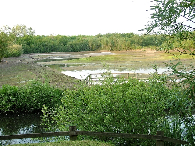 View of the artificial mud flats created in Broad Ees Dole, taken from just outside the hide, in May 2007. --- Eric 20:33, 21 May 2007 (UTC)